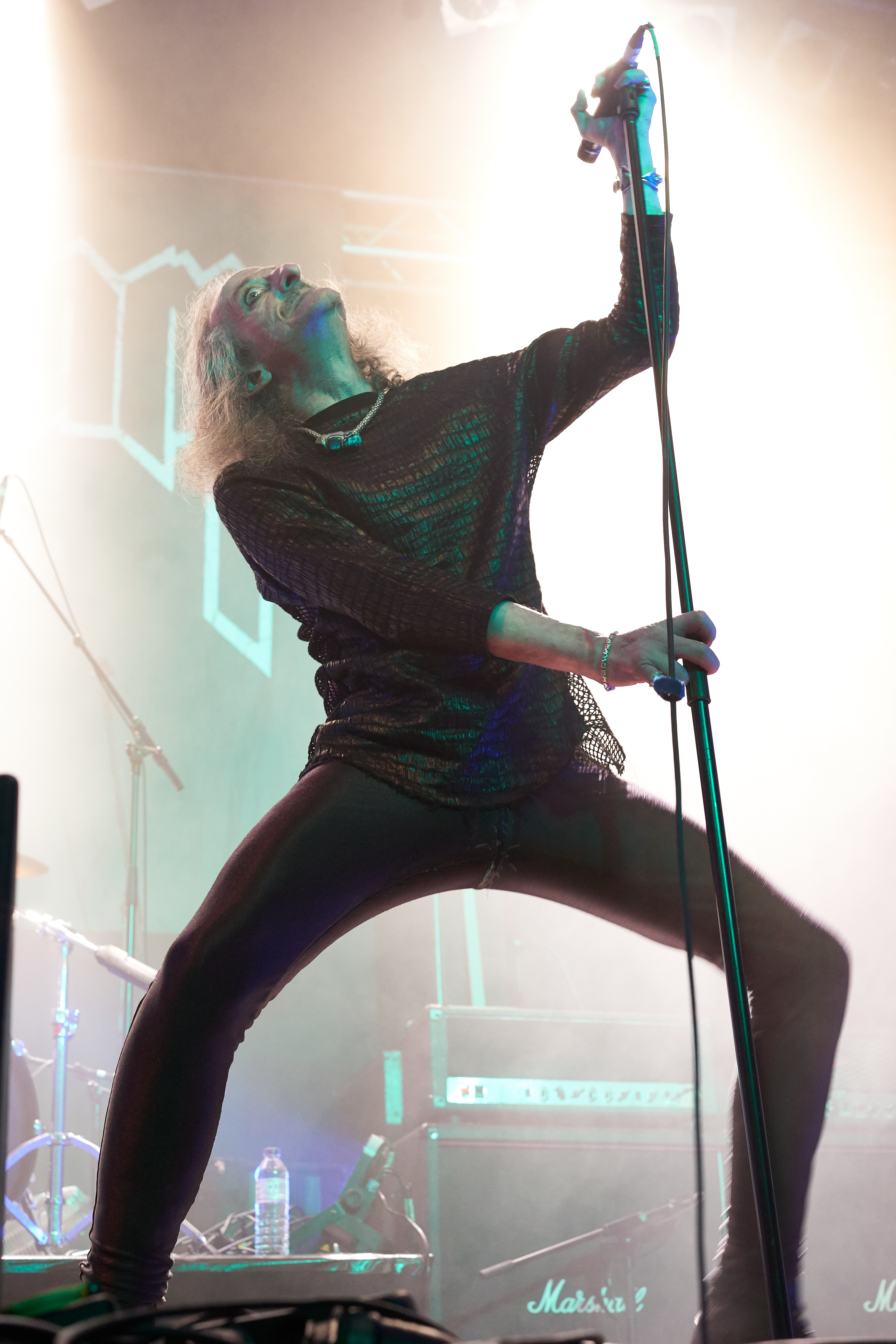 Pentagram at Hammer of Doom Festival, Würzburg, Posthalle, 20.11.2015 Festivalsommer This photo was created with the support of donations to Wikimedia Deutschland in the context of the CPB project "Festival Summer". Personality rights warning Although this work is freely licensed or in the public domain, the person(s) shown may have rights that legally restrict certain re-uses unless those depicted consent to such uses. In these cases, a model release or other evidence of consent could protect you from infringement claims.